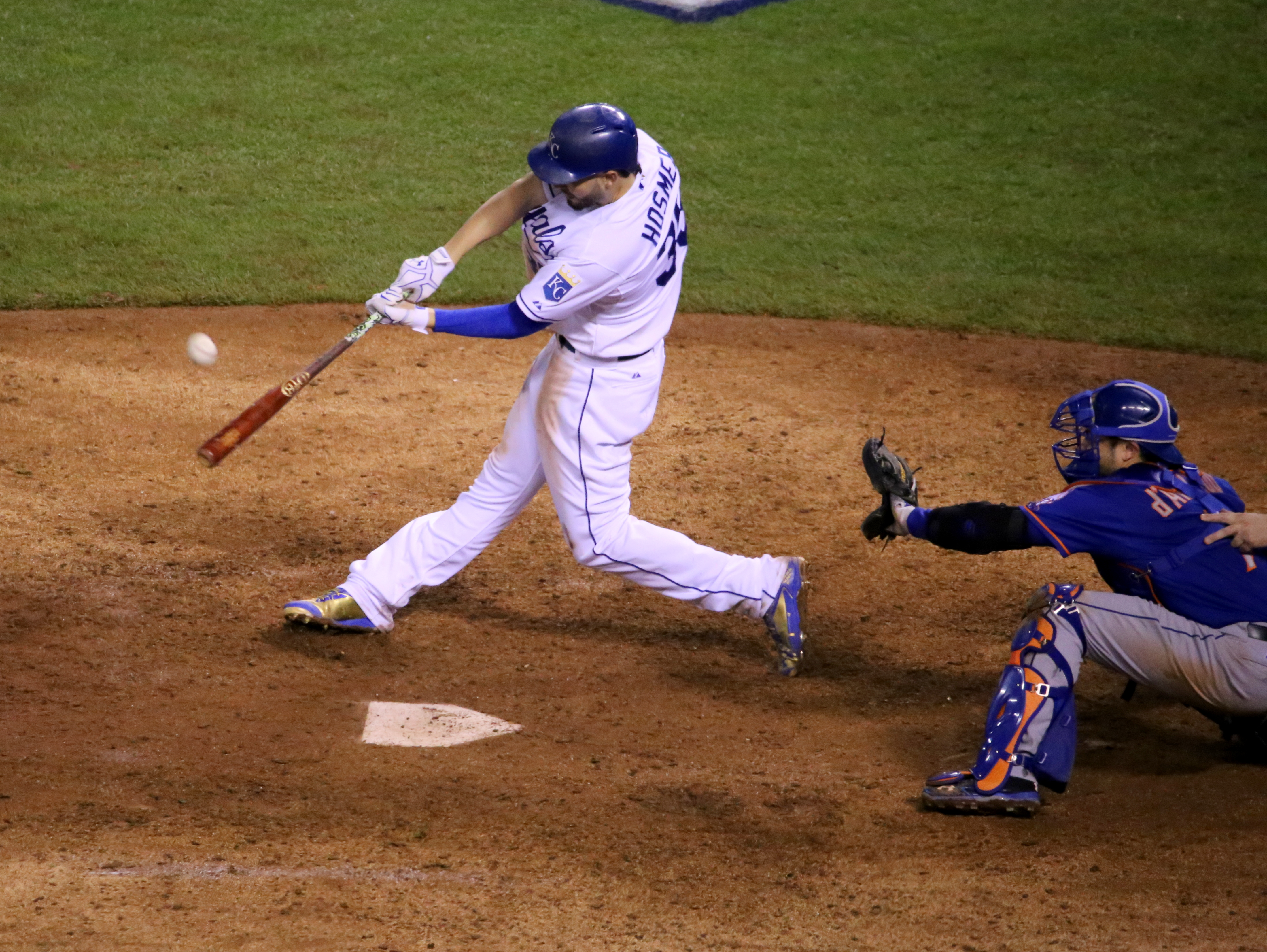 Eric Hosmer's sac fly plates the winning run in #WorldSeries Game 1.